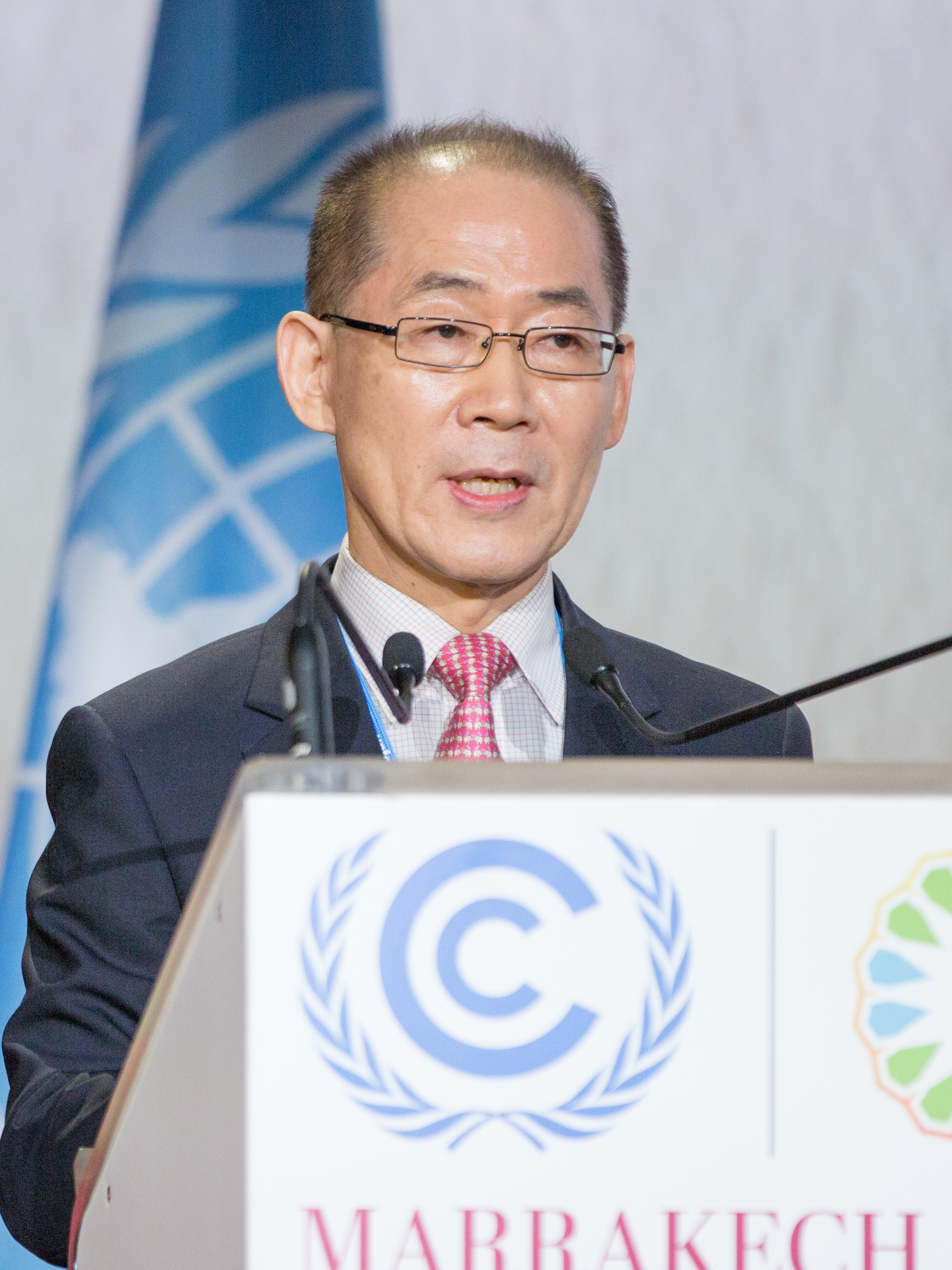 Mr. Hoesung Lee, Chairman of the IPCC, during the 2016 United Nations Climate Change Conference